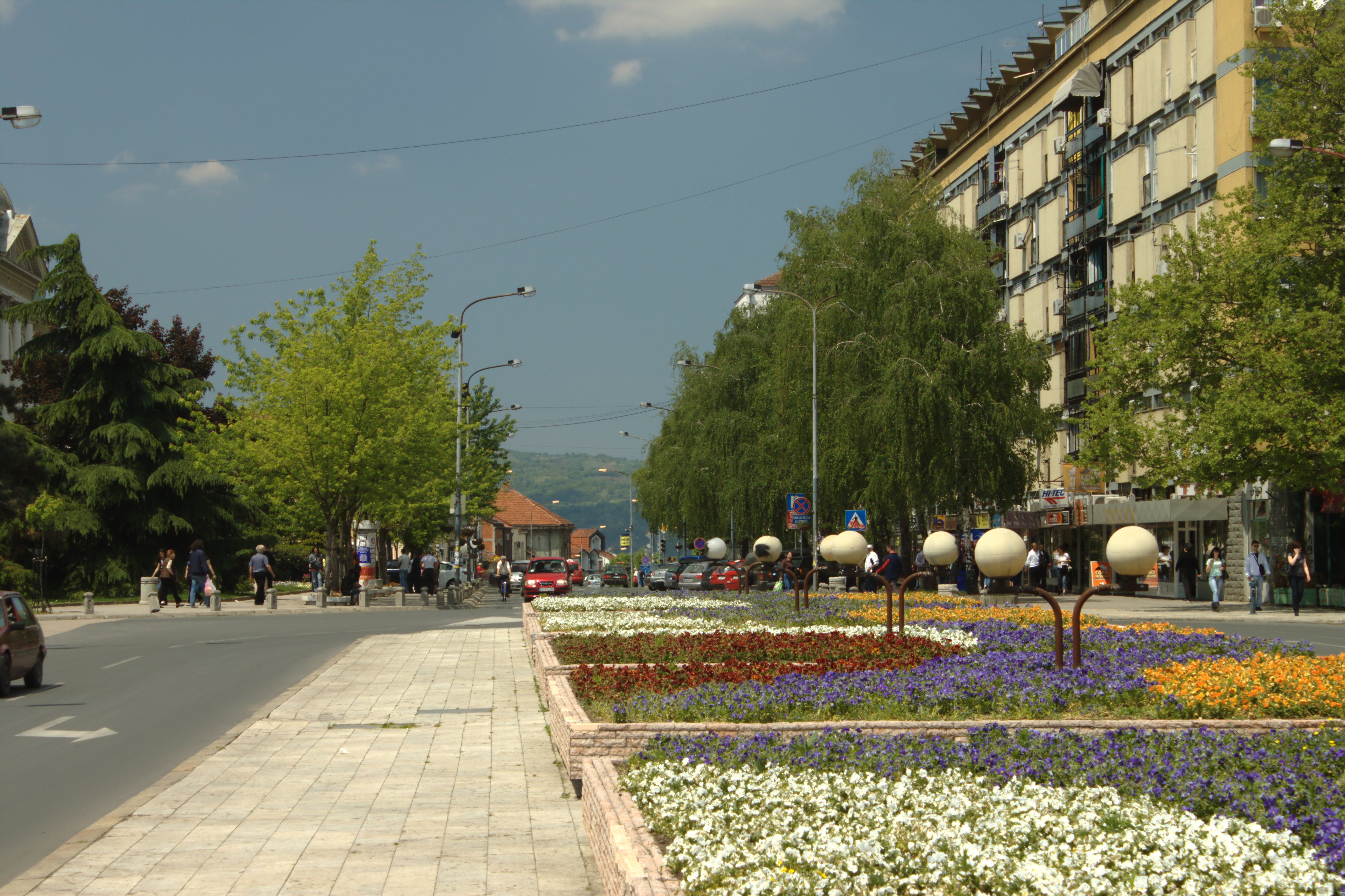 A square in the central part of the town of Kruševac, Serbia